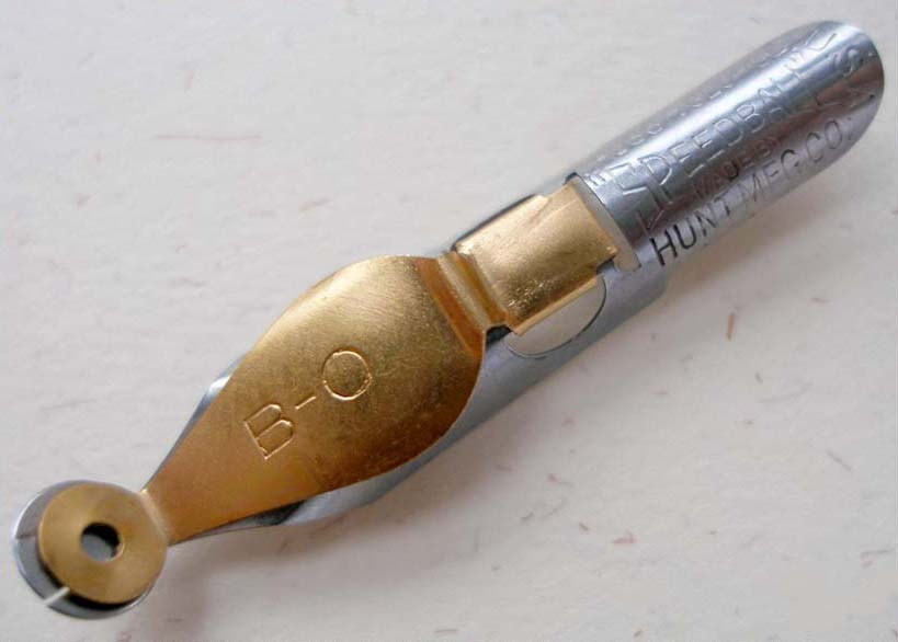 "Speedball" B-0 dip pen, by Hunt Manufacturing Co.